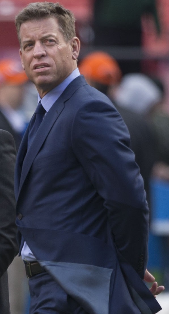 Packers at Redskins Wildcard Game 01/10/16